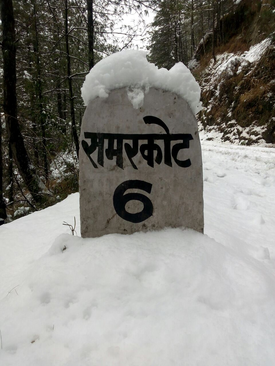 A Village in Rohru